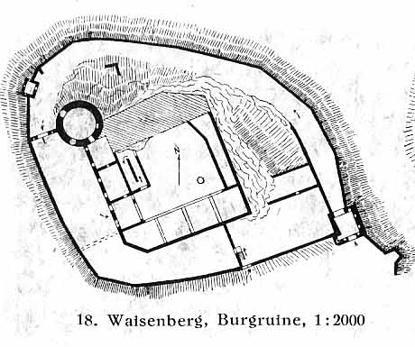 Ground-plan by Ginhart